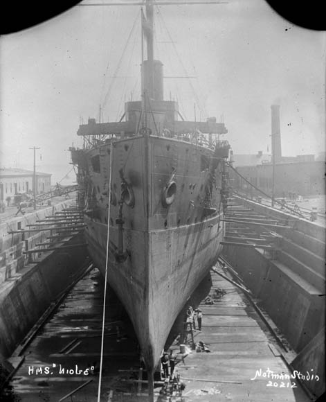 Photograph of British Diadem class cruiser HMS Niobe in drydock at Halifax, Nova Scotia, Canada.